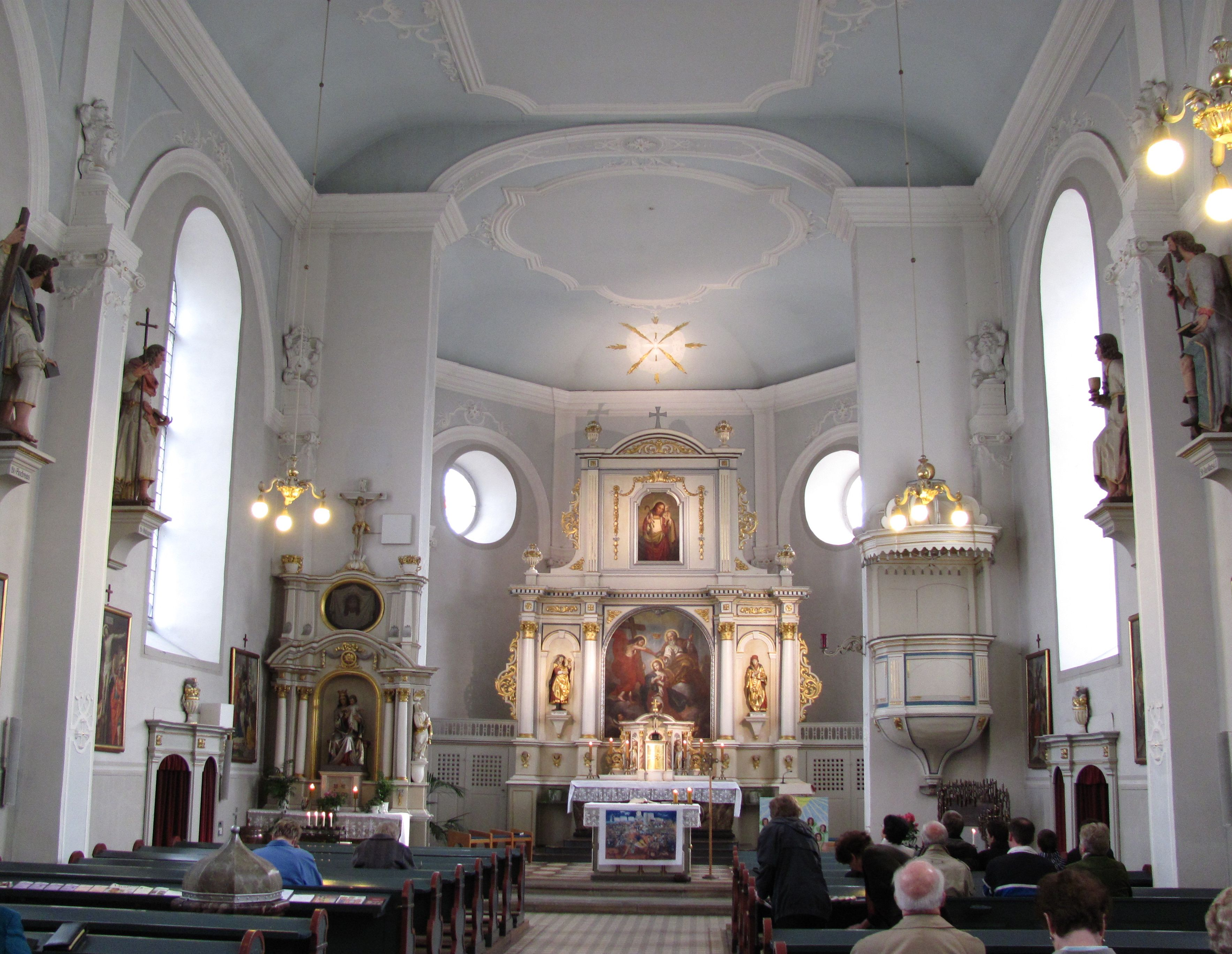 Catholic Church, Bad Salzdetfurth-Groß Düngen, Lower Saxony, Germany